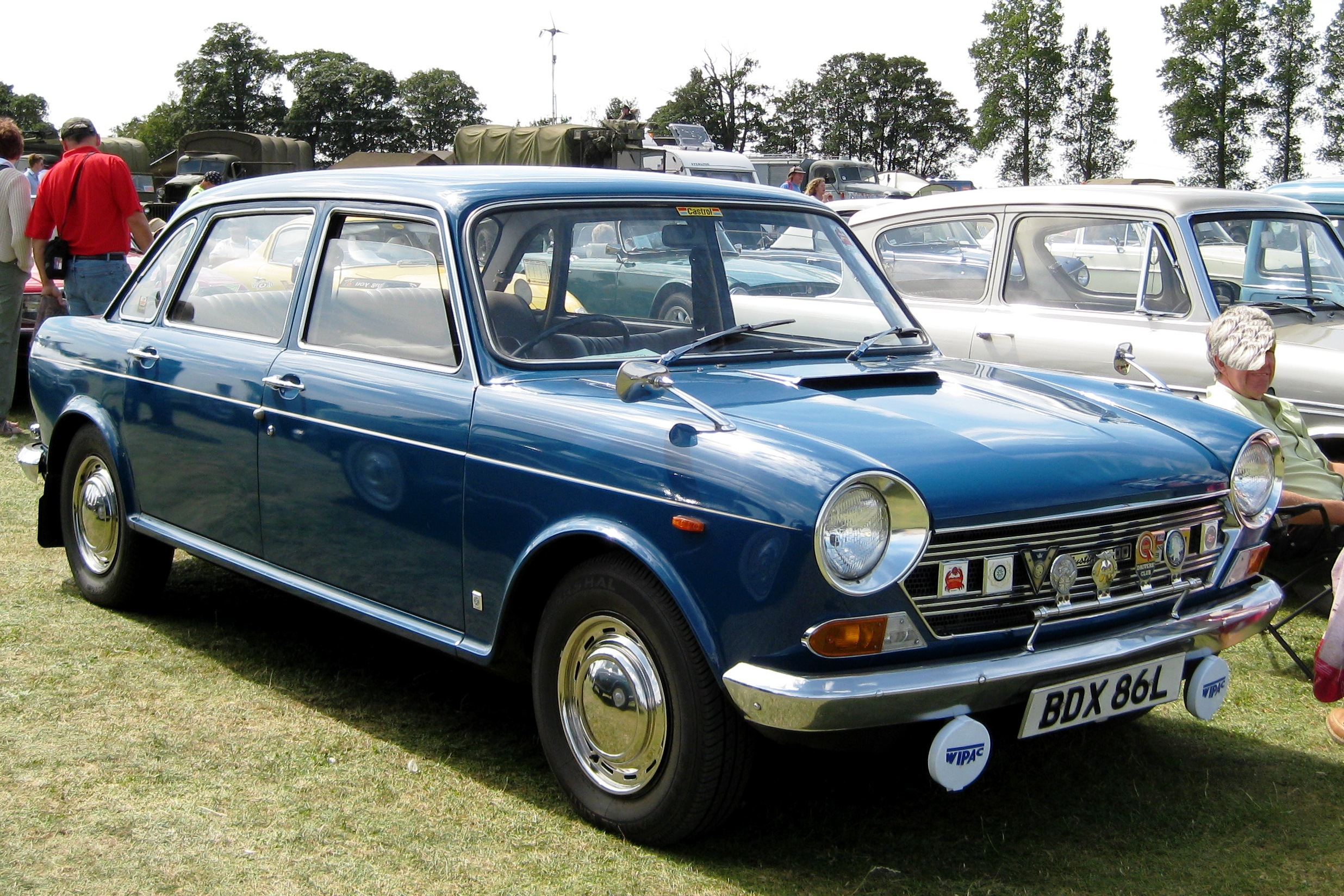 Austin 1800 Mk III